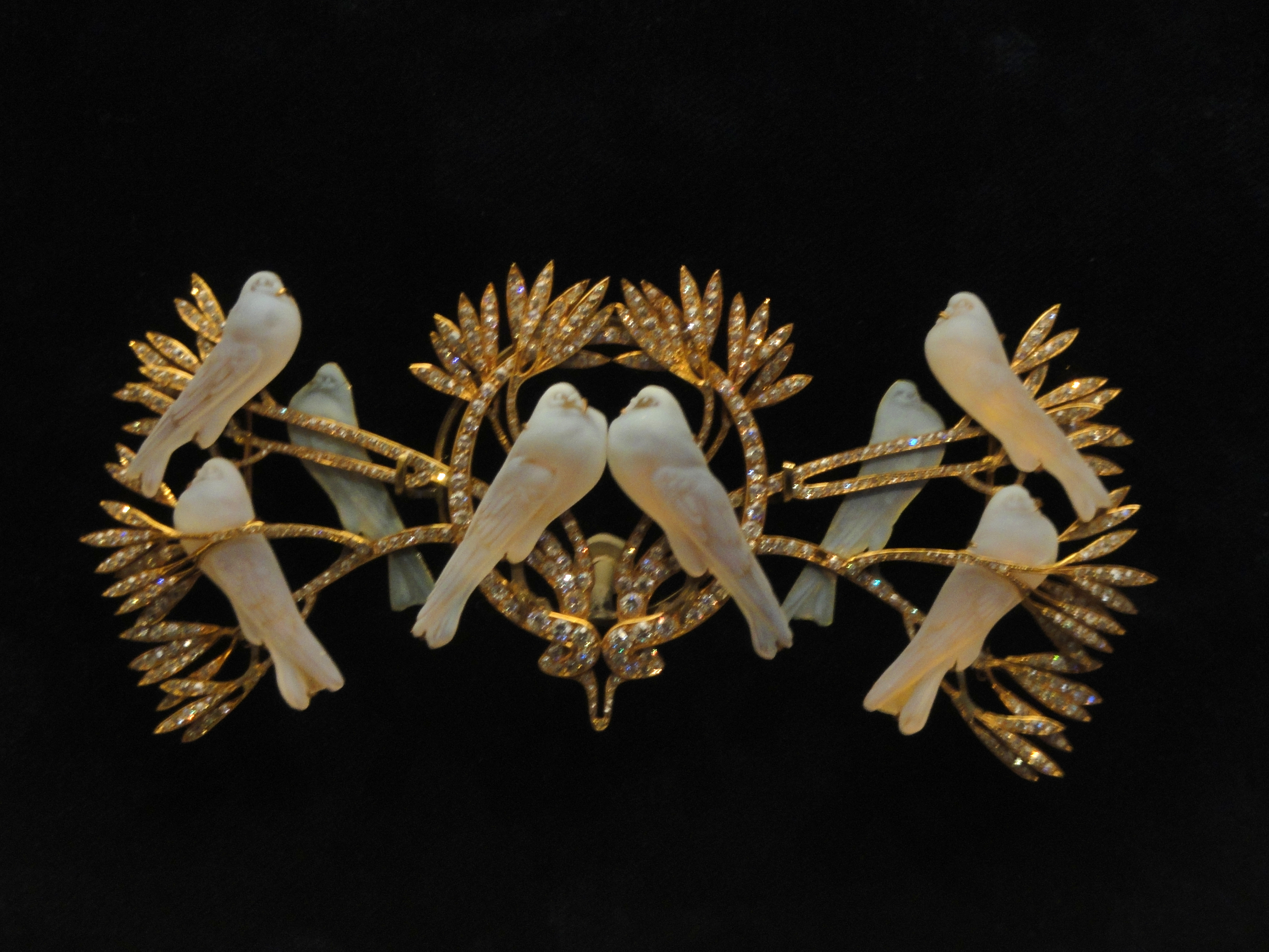 Exhibit in the National Museum of American History, Washington, DC, USA. This item is in the public domain because it is property of the national museum.